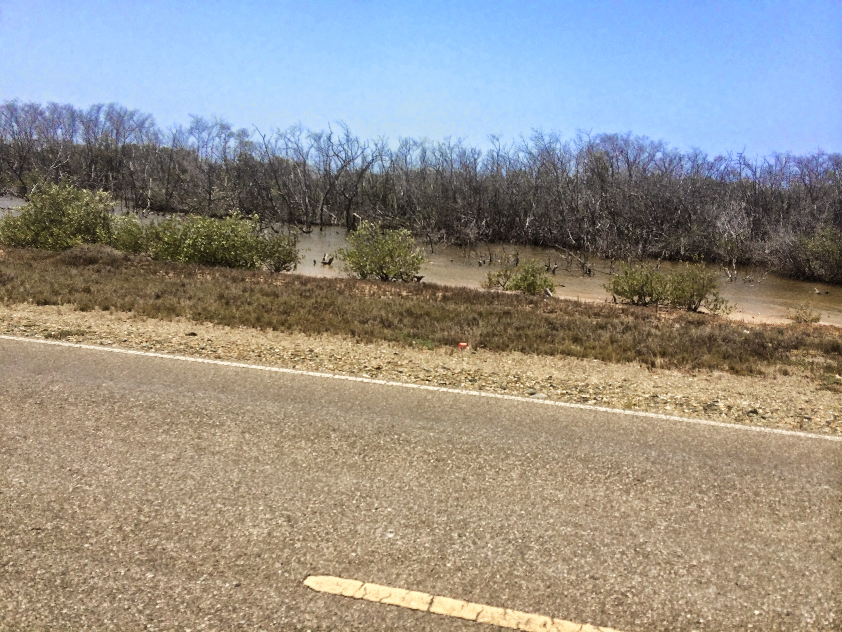 Carretera Duarte (RD-1), Monte Cristi National Park, Dominican Republic